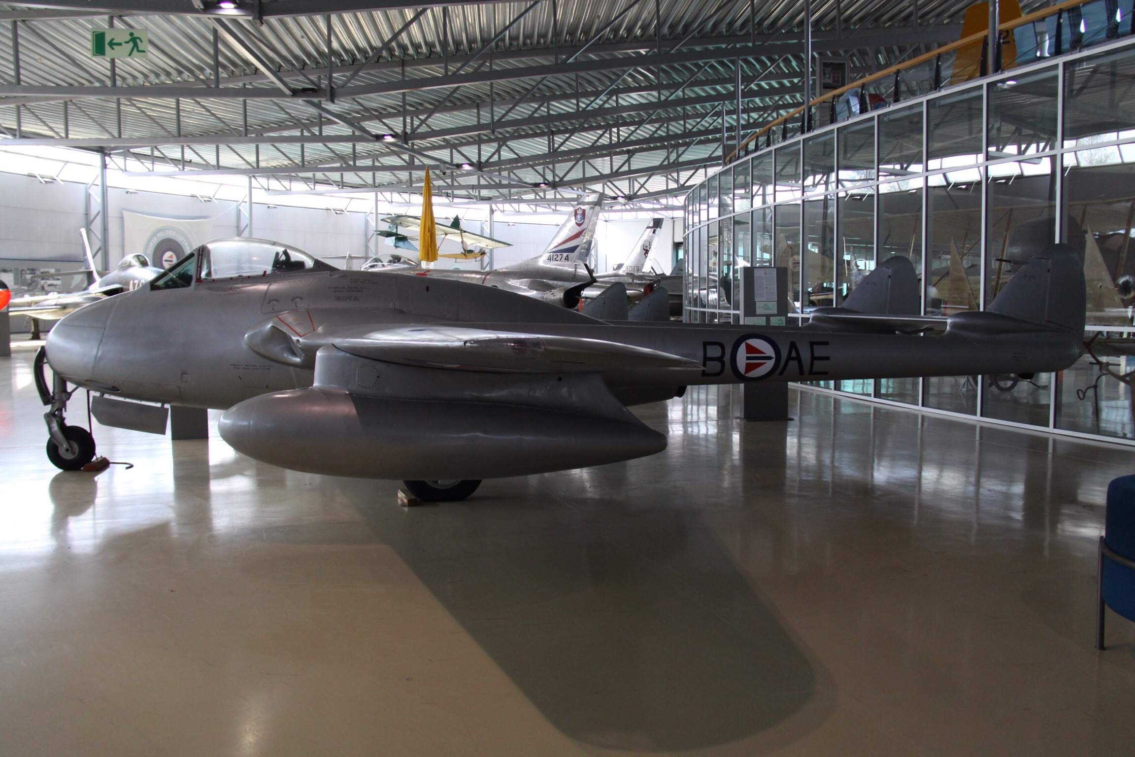 At Oslo Gardermoen